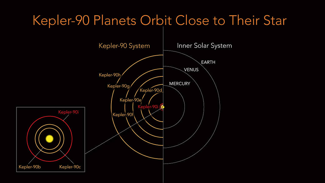 December 14, 2017 Kepler-90 Planets Orbit Close to Their Star Kepler-90 system planet orbits, compared to planetary orbits in our solar system Kepler-90 is a Sun-like star, but all of its eight planets are scrunched into the equivalent distance of Earth to the Sun. The inner planets have extremely tight orbits with a “year” on Kepler-90i lasting only 14.4 days. In comparison, Mercury’s orbit is 88 days. Consequently, Kepler-90i has an average surface temperature of 800 degrees Fahrenheit, and is not a likely place for life as we know it. The structure of the Kepler-90’s system hints that the eight planets around Kepler-90 may have formed more spread out, like the planets in our own solar system, and then somehow migrated to the orbits we see them in today.